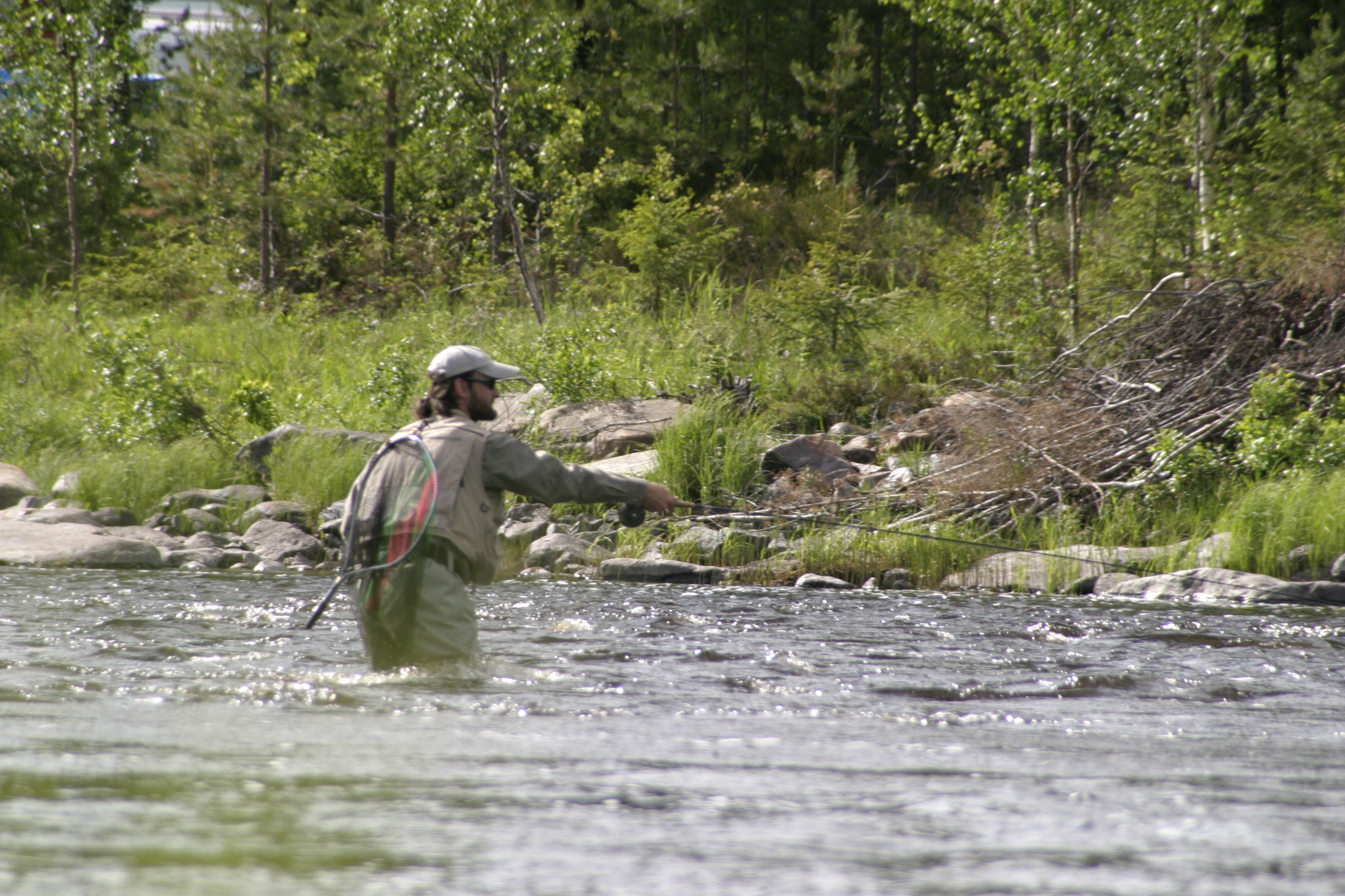 Martin Drož from Czech Republic's fly fishing world championchip team.